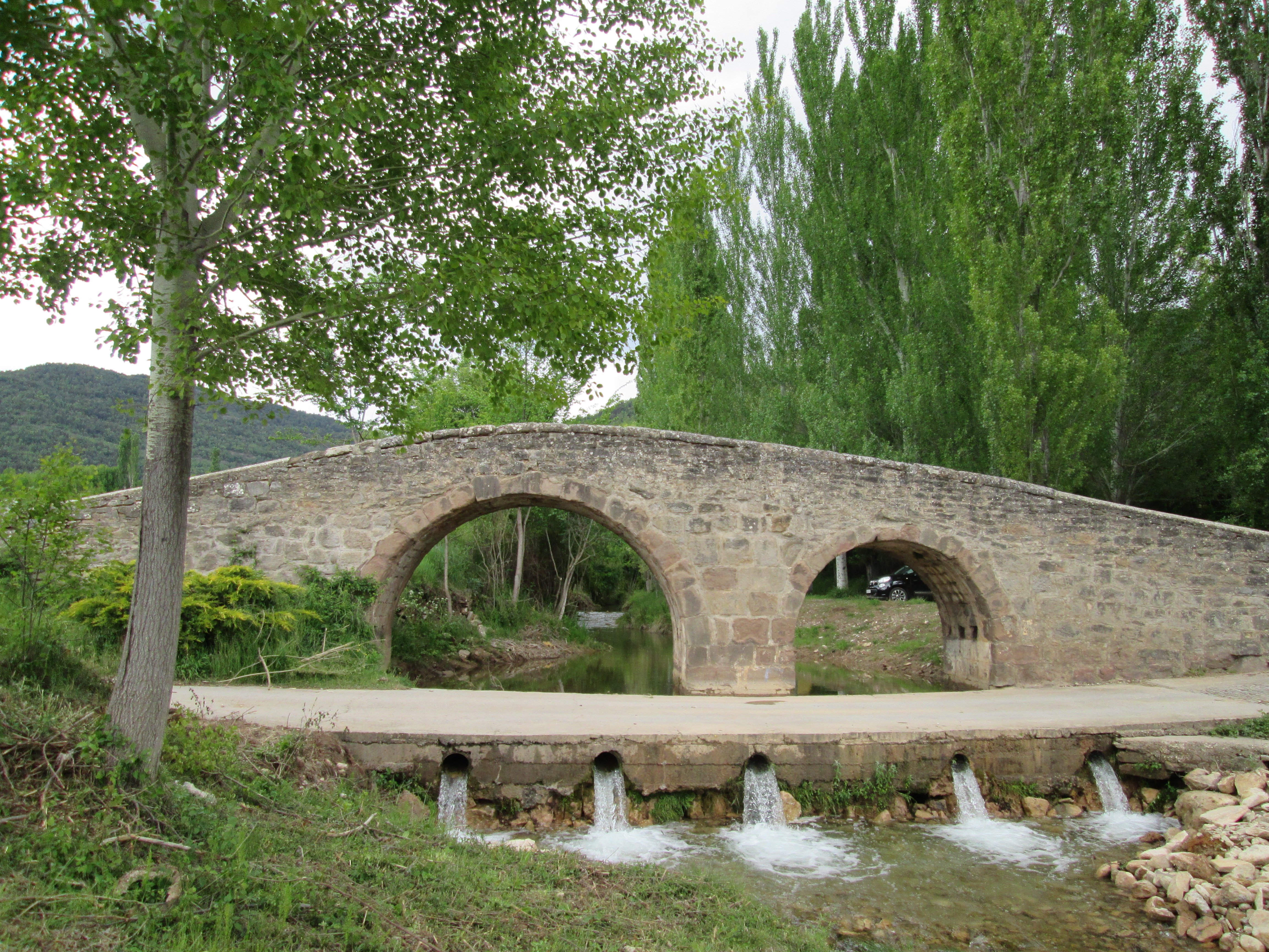 Bridge on the Guatizalema river in Nocito, Aragon, May 2014.